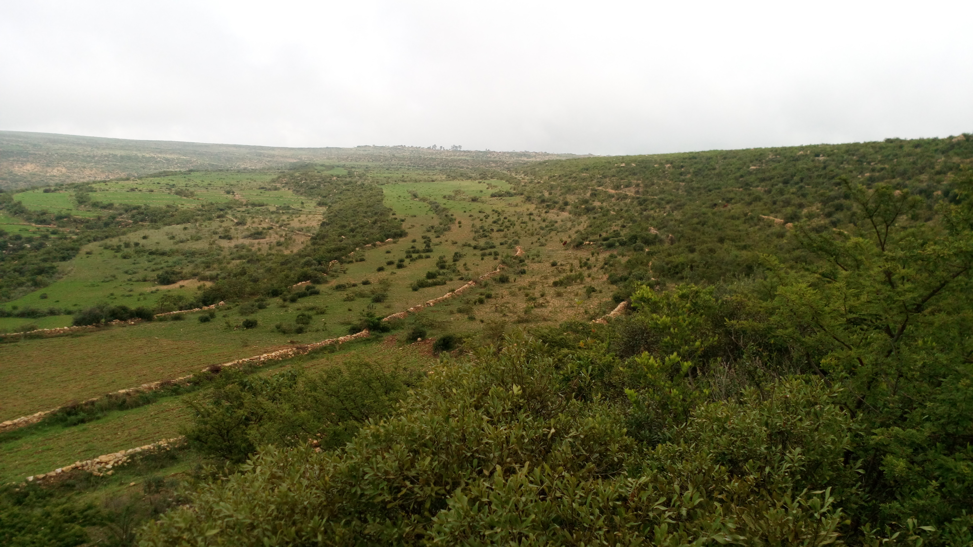 May Genet